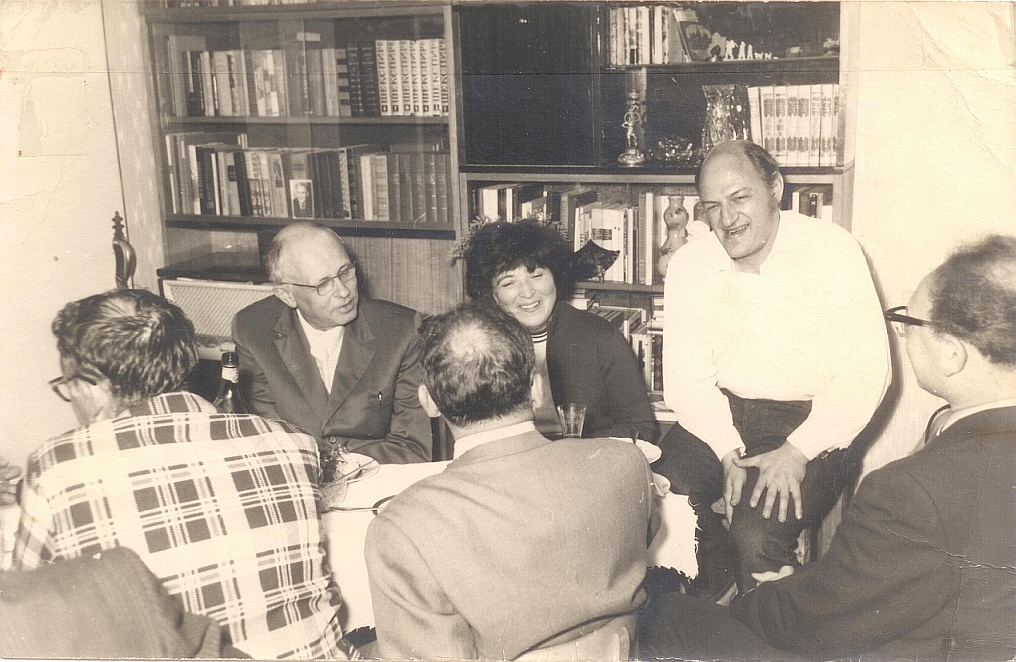 Edward N. Trifonov, refuseniks and Andrei Sakharov before 1976.